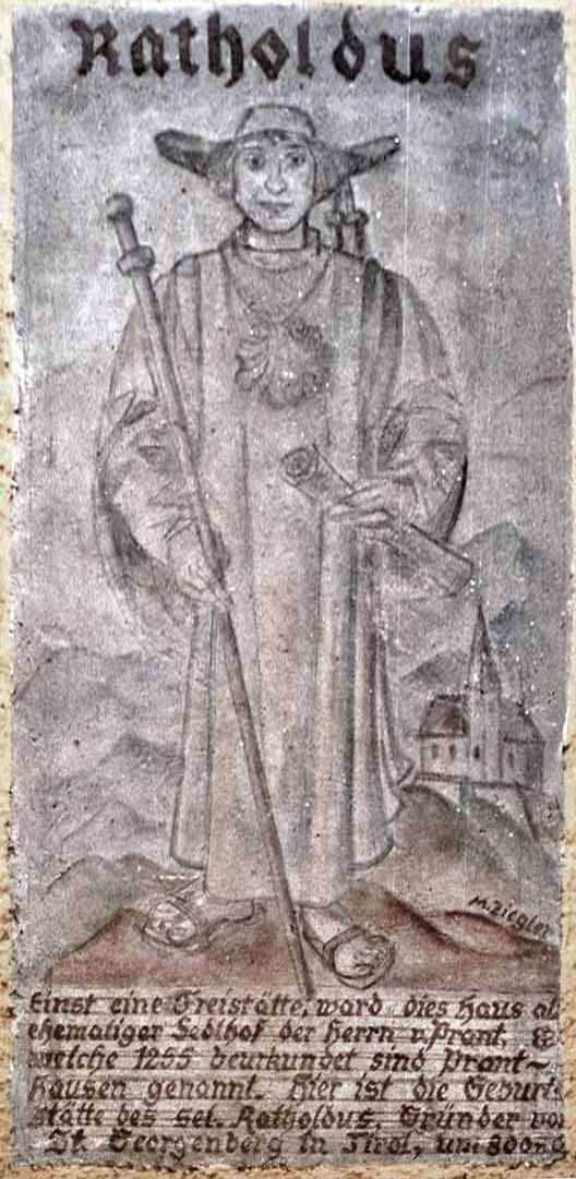 Beatified Ratholdus, founder of St. Georgenberg, died ca. 954. Wallpainting on North fassade of former Schloss Prantshausen, Bad Aibling, his presumed place of birth in about 900.